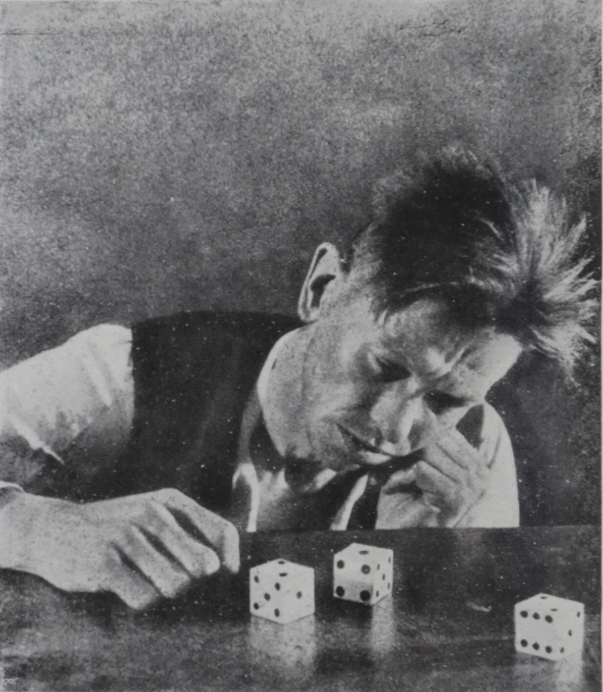 Title: The last roll